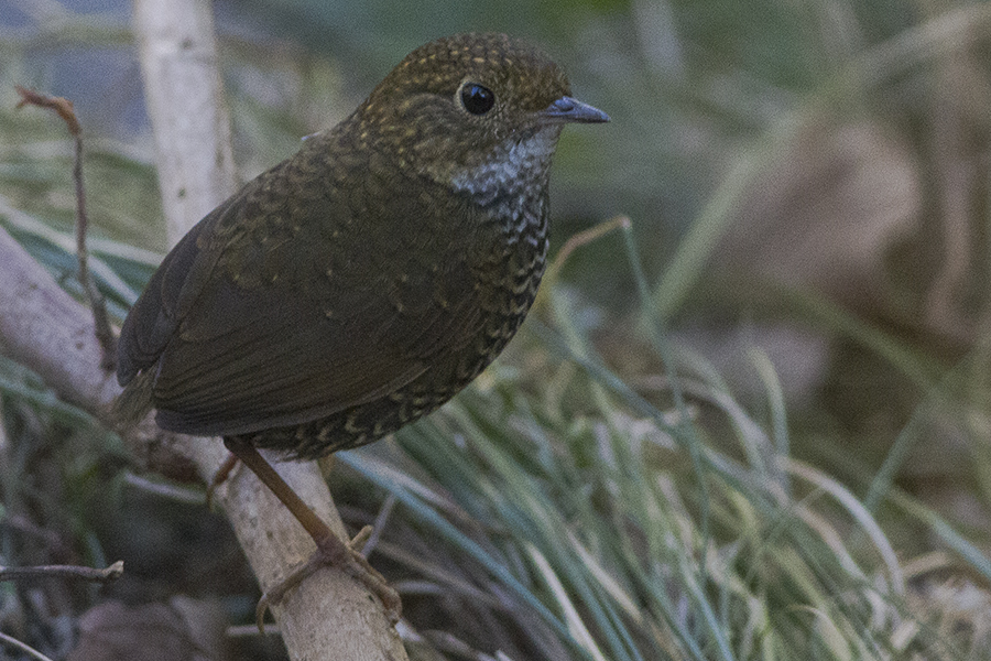 The species Scaly-breasted Wren-babbler had been photographed at Kedarnath Musk Deer Sanctuary during birding tour of GoingWild; at Uttarakhand, India on 25.11.2015.